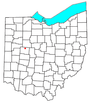 Locator map of the unincorporated community of Northwood in Logan County, Ohio, United States.